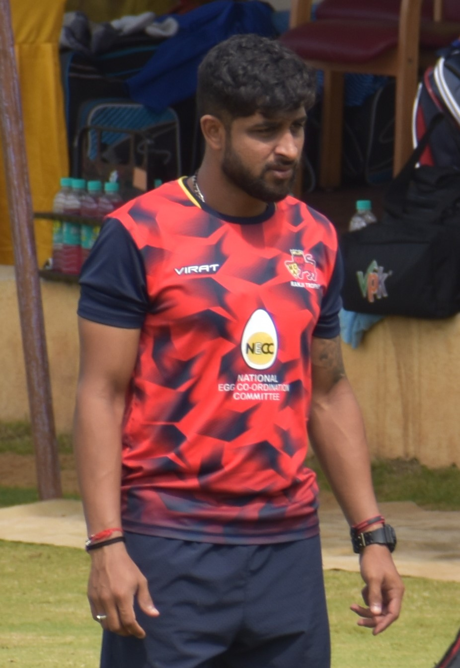 Indian cricketer Shubham Ranjane during the 2019-20 Vijay Hazare Trophy in Alur, Bangalore.